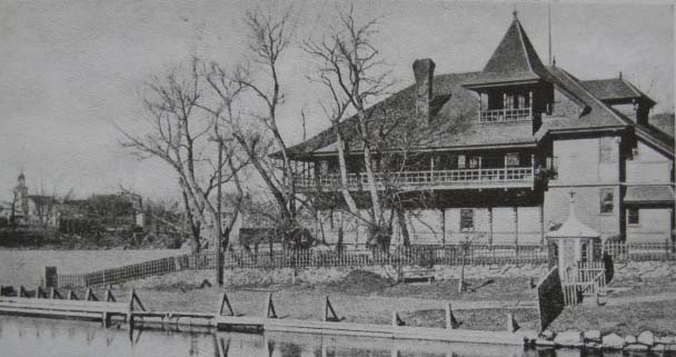 post card of the Vesper Boat House